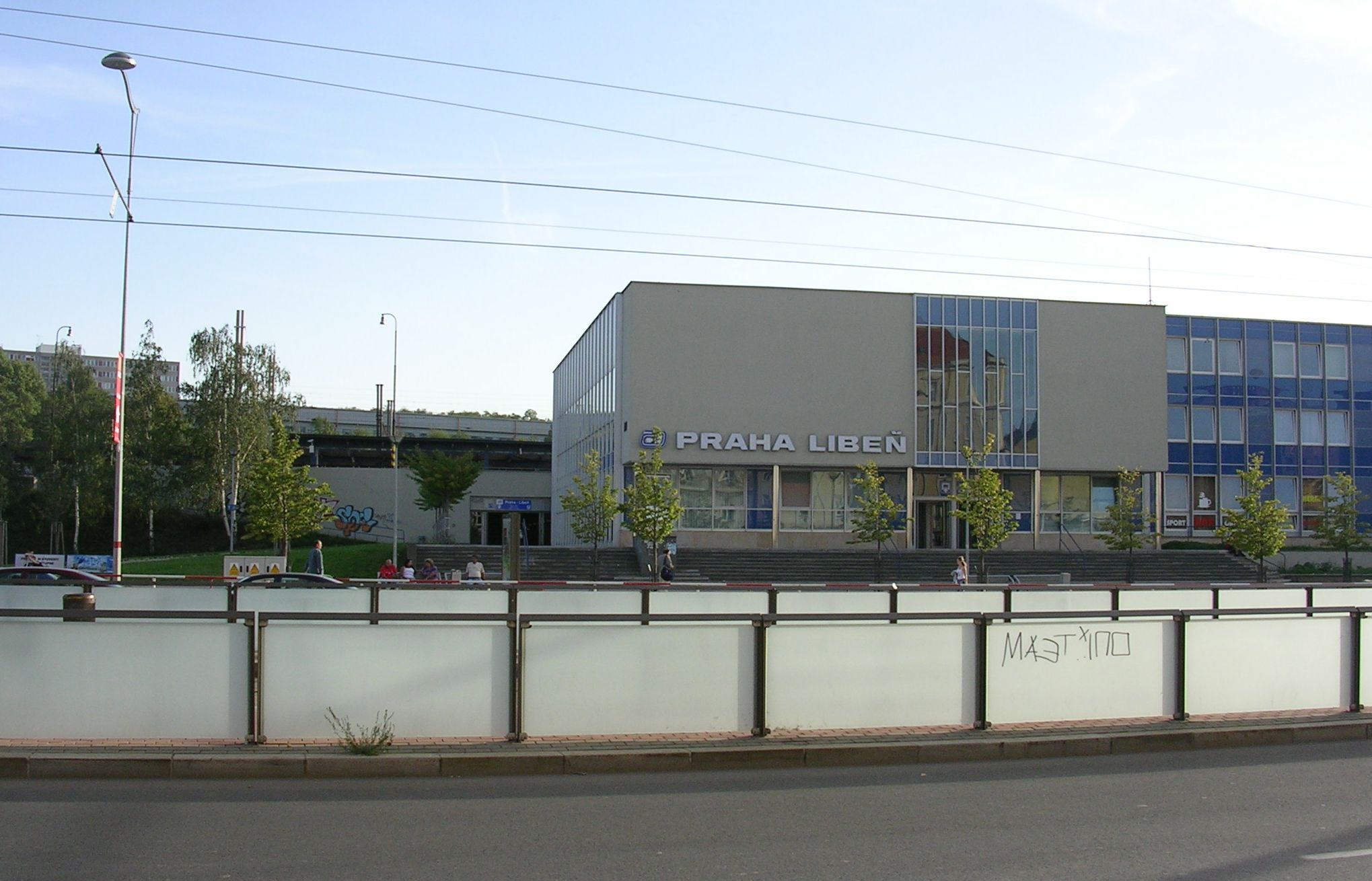 Vysočany, Prague, the Czech Republic. "Praha-Libeň" train station. A view from Českomoravská Street.